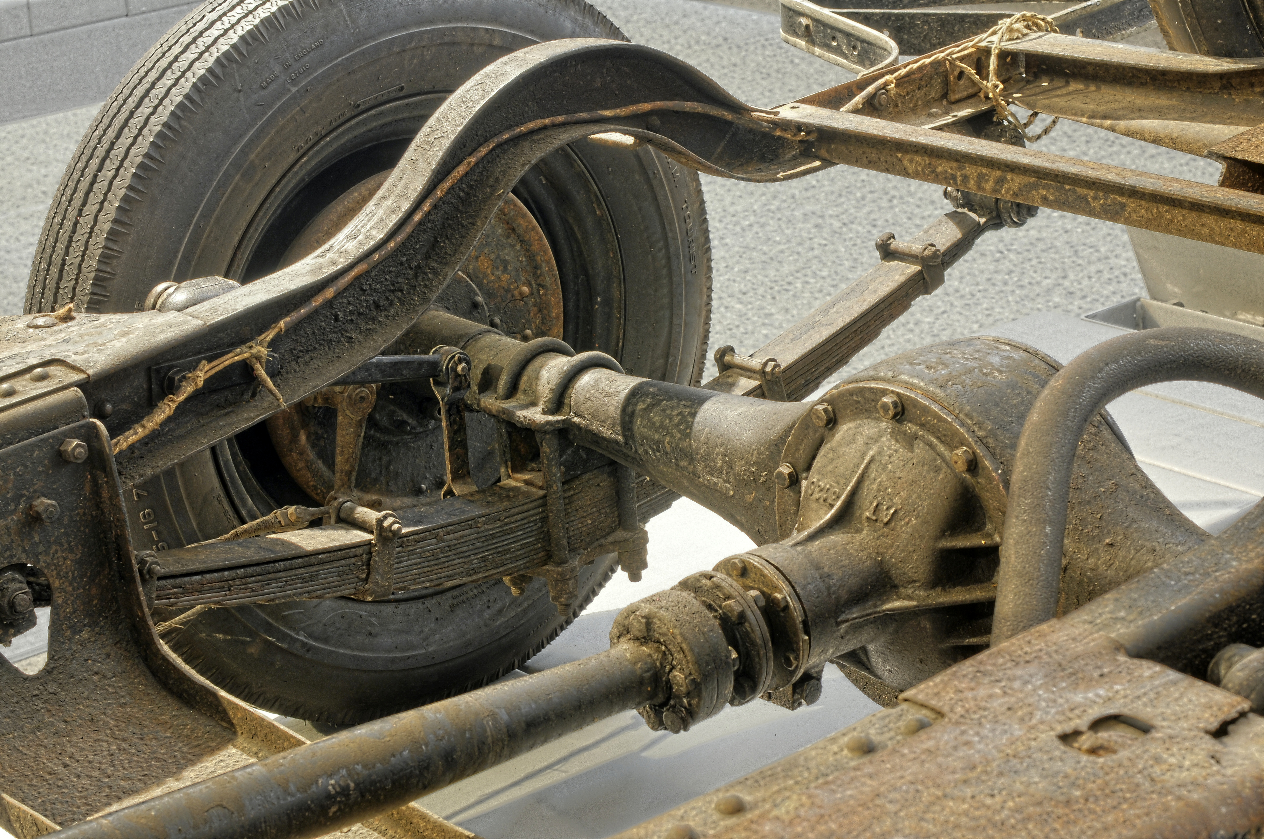 Škoda 422 rear axle, suspension and drive shaft on display at the Škoda Muzeum. Fototermin Škoda Muzeum 5. April 2013 in Mladá Boleslav This work is free and may be used by anyone for any purpose. If you wish to use this content, you do not need to request permission as long as you follow any licensing requirements mentioned on this page.